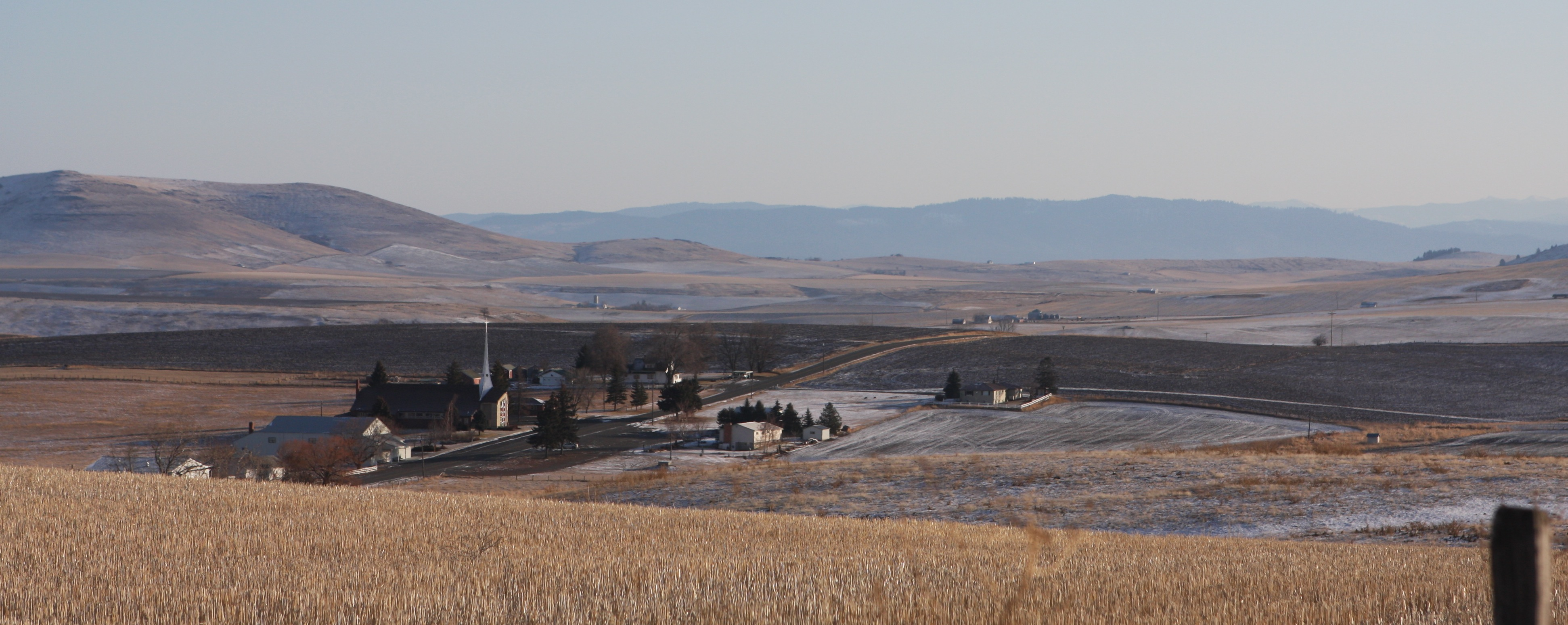 Picture of Greencreek, Idaho in late fall / early winter 2009